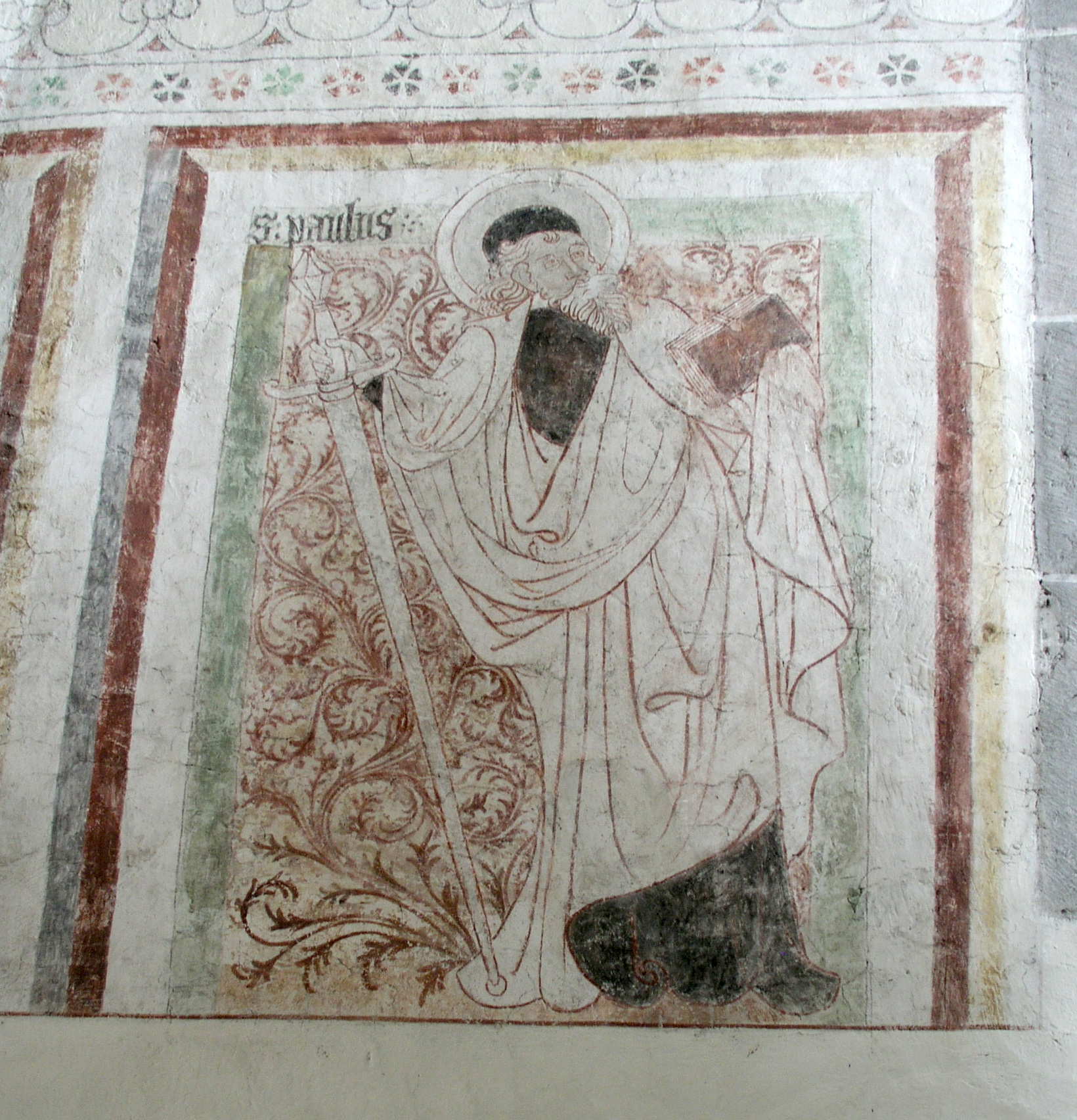 Fresco representing Saint Paul in Othem church, Gotland, Sweden